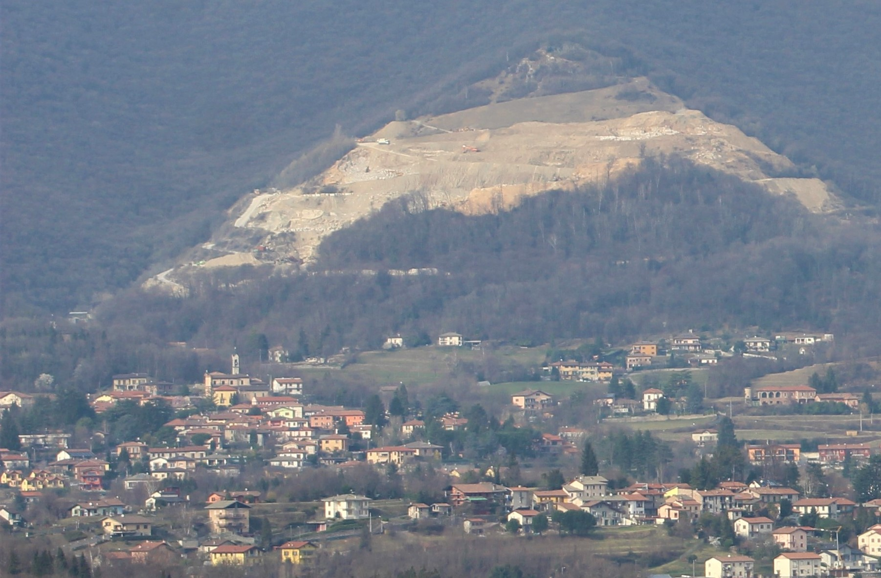 Cave in Saltrio - view from Colle San Maffeo in Rodero.